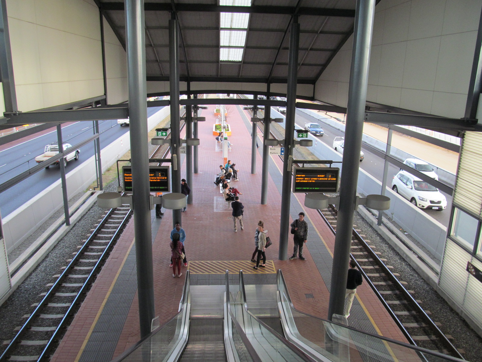 Platform as seen from descending escalator at Murdoch railway station in Perth, Western Australia